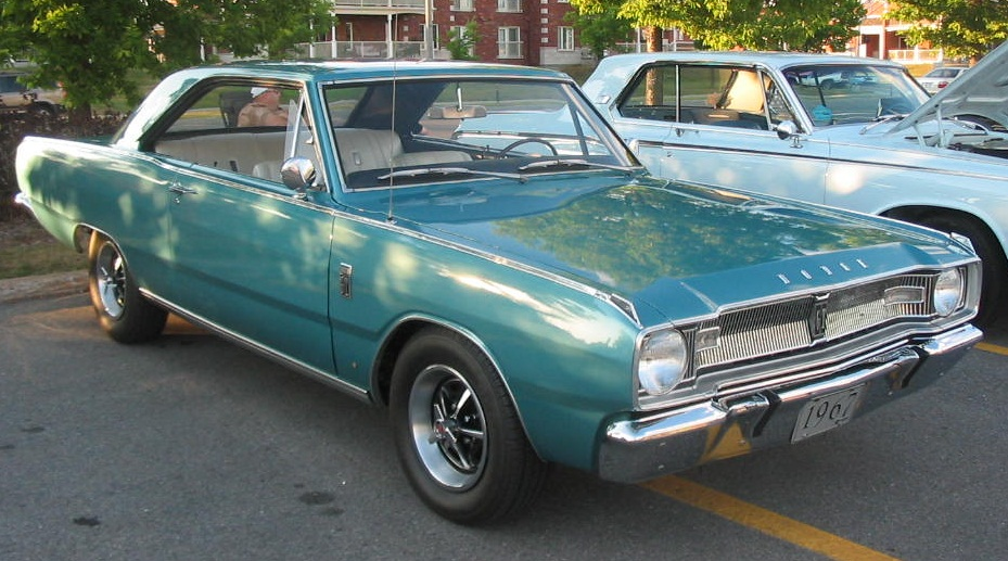 1967 Dodge Dart photographed in Dollard Des Ormeaux, Quebec, Canada at the Auto classique Jukebox Burgers.